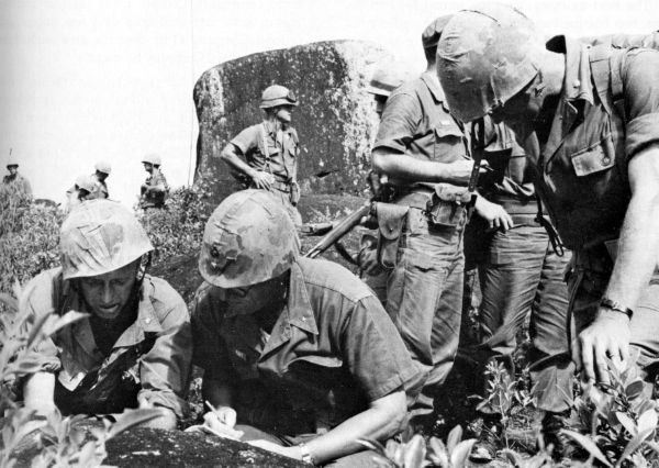 Lieutenant Colonel Joshua W. Dorsey III {left), Commanding Officer, 3d Battalion, 3d Marines, confers with Brigadier General Jonas M. Platt (right), Commanding Task Force DELTA. Dorsey's battalion is about to enter the Phouc Ha Valley, a known VC main base area.